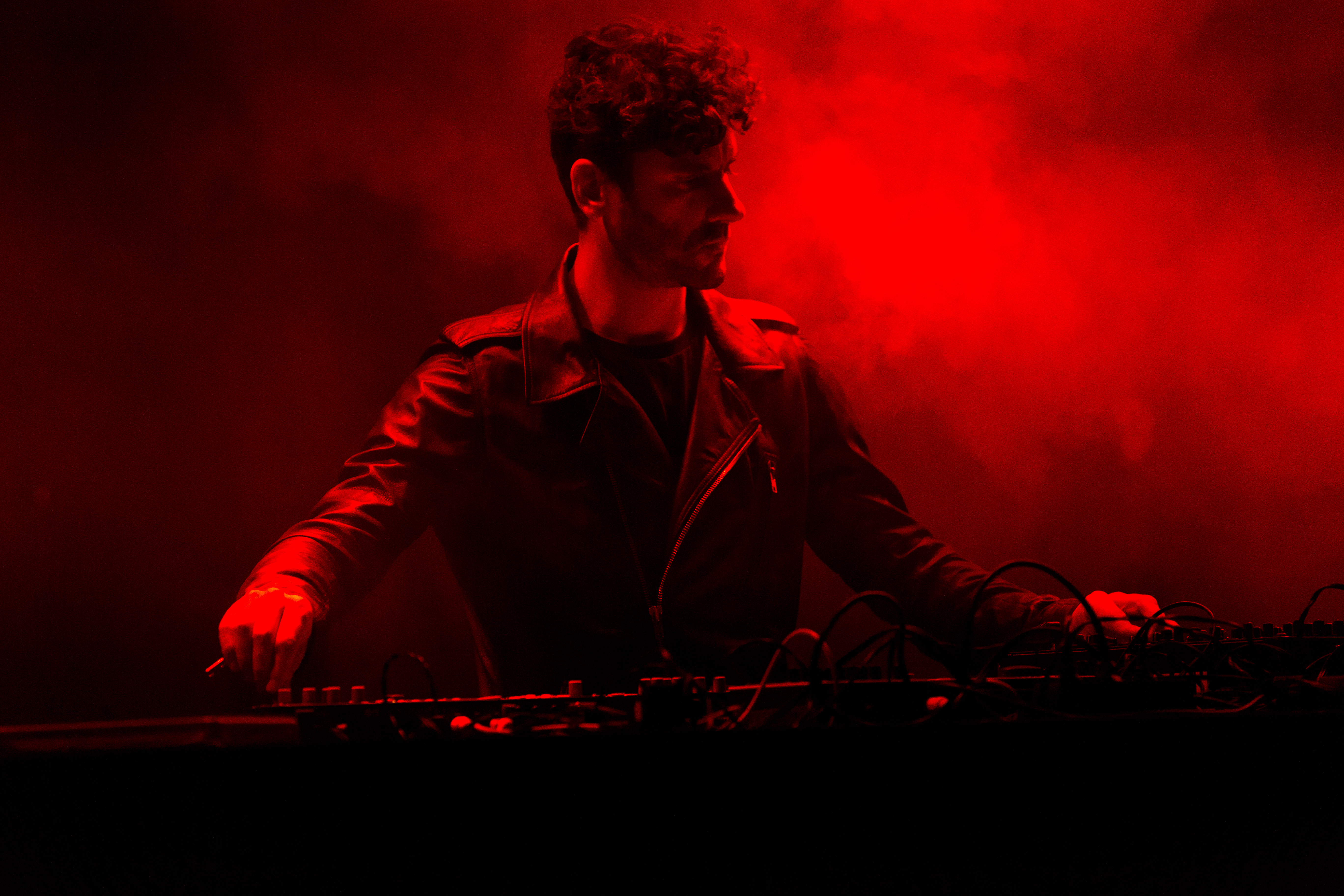 The French/British EBM project Fixmer/McCarthy at the Nocturnal Culture Night 11 2016 in Deutzen/Germany.